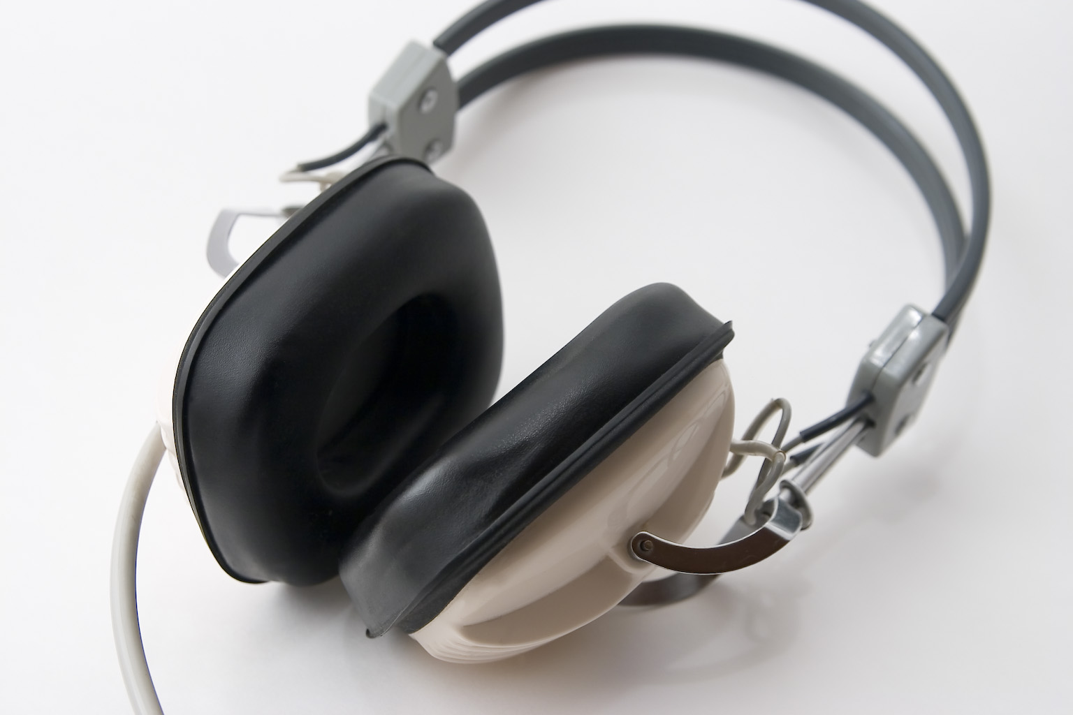 White headphones from the 1970's, model "C525". Brand: ?. Picture created by User:PJ and User:Piko using Canon EOS 300D camera with Tamron 28-75 mm f/2.8 lens.